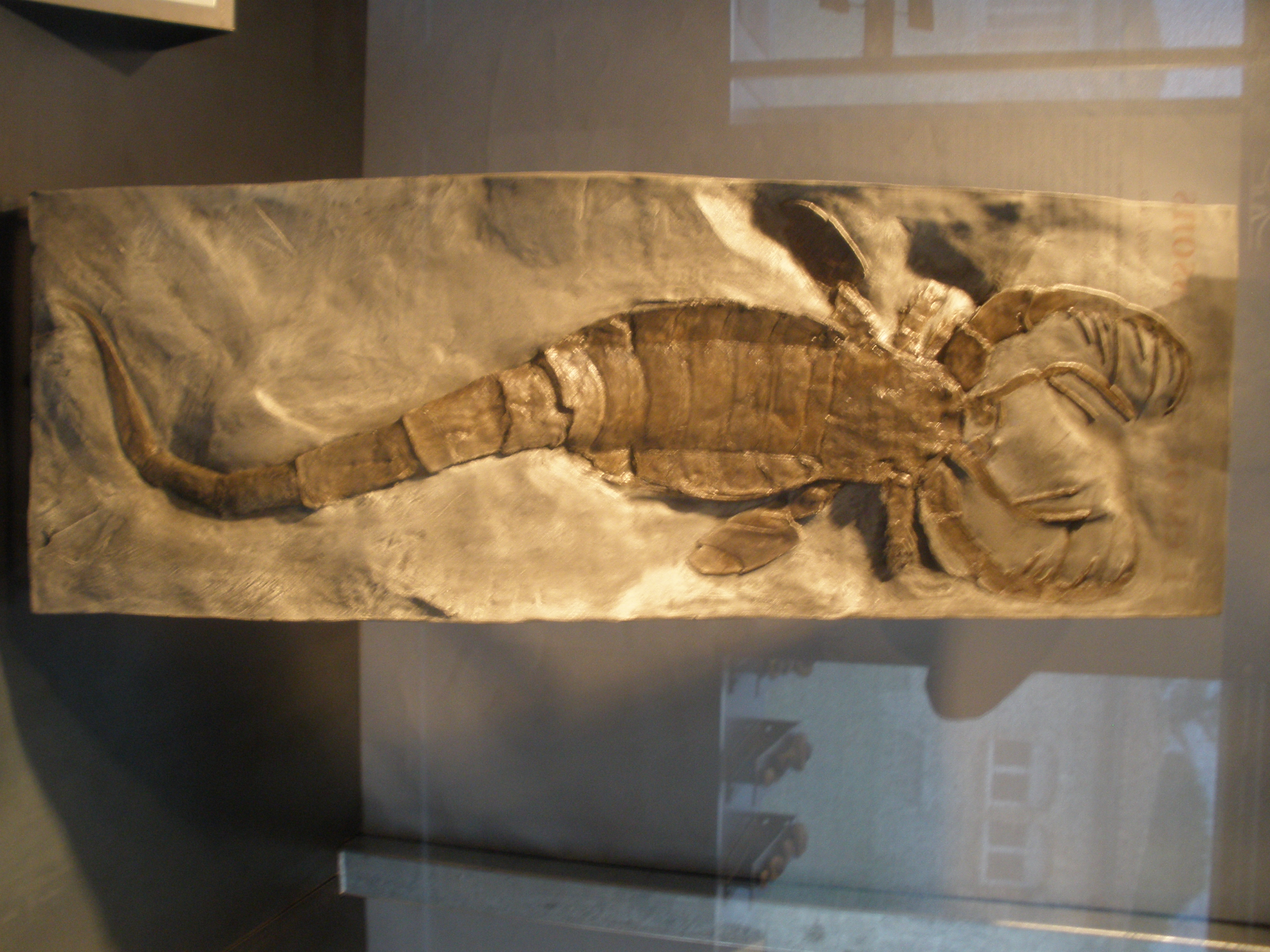 fossil of Mixopetrus kjaeri, an extinct sea scorpion